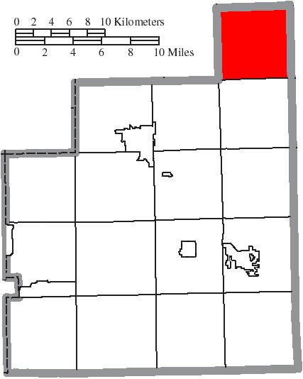 Map of the municipal and township boundaries of Geauga County, Ohio, United States, as of the 2000 census, with the location of Thompson Township highlighted. Township borders are shown only in unincorporated areas in order to differentiate incorporated and unincorporated areas more clearly.